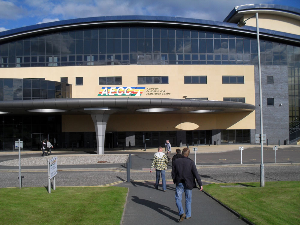 The AECC